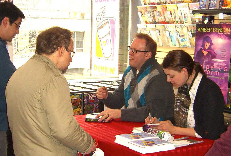 Novelist Anton Strout and Buffy the Vampire Slayer star, director, producer and novelist Amber Benson at Midtown Comics Downtown in Manhattan on March 5, 2011, promoting Strout’s novel, Dead Waters, and Benson’s novel, Serpent’s Storm.